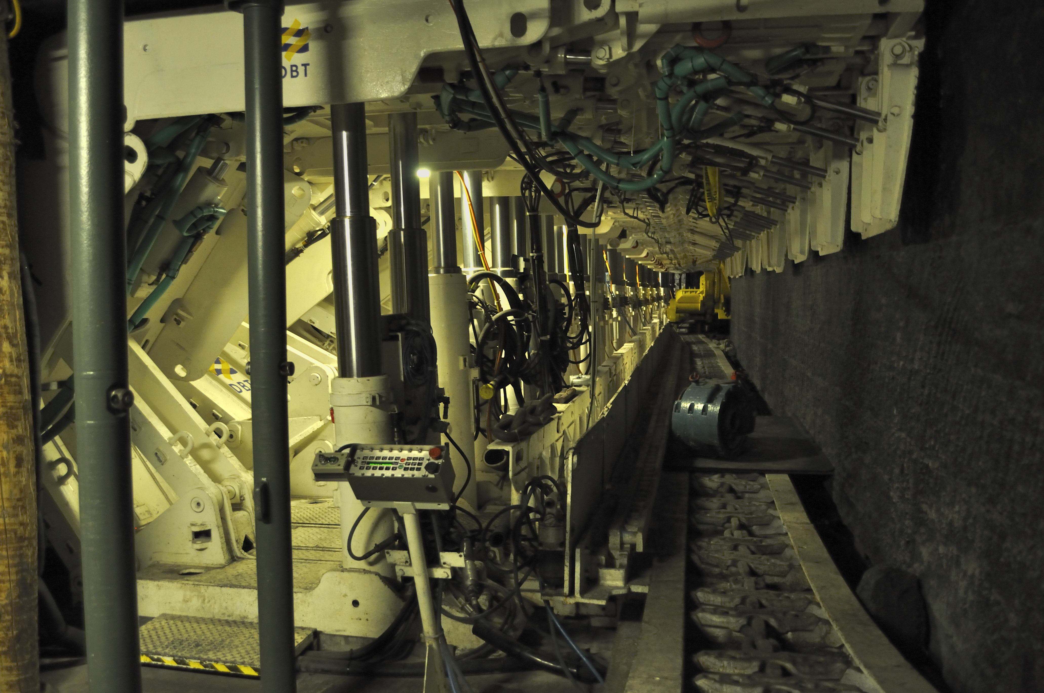 Picture taken in German mining museum Bochum before Duisburg summer meetup.